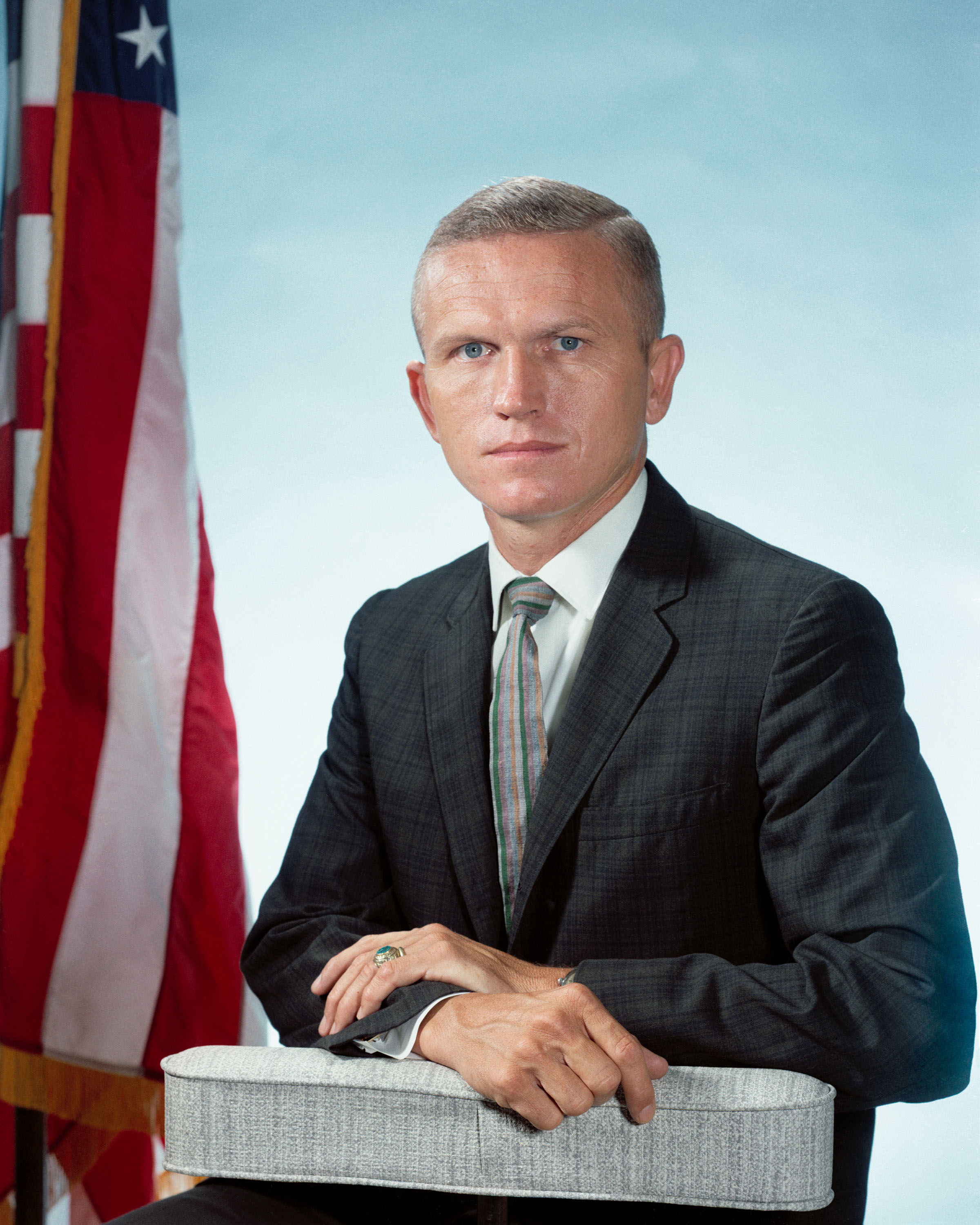 S64-31456 (1964) --- Astronaut Frank Borman.